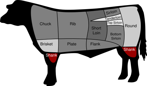 Uploaded for an infobox